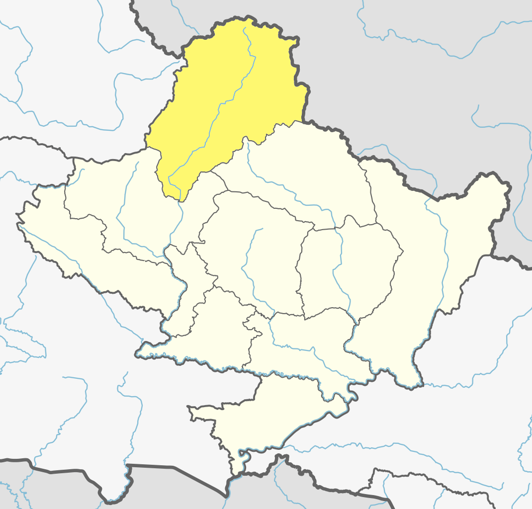 Mustang District